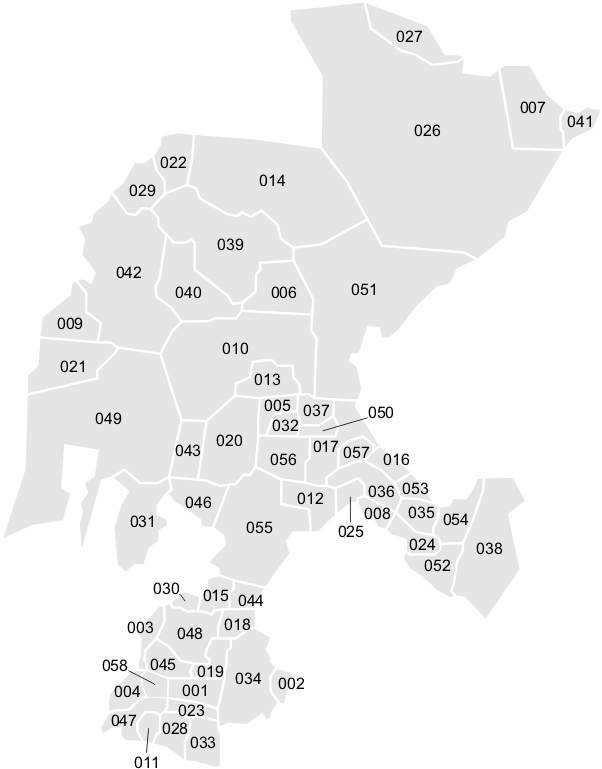 Map of the Municipalities of the State of Zacatecas, México.